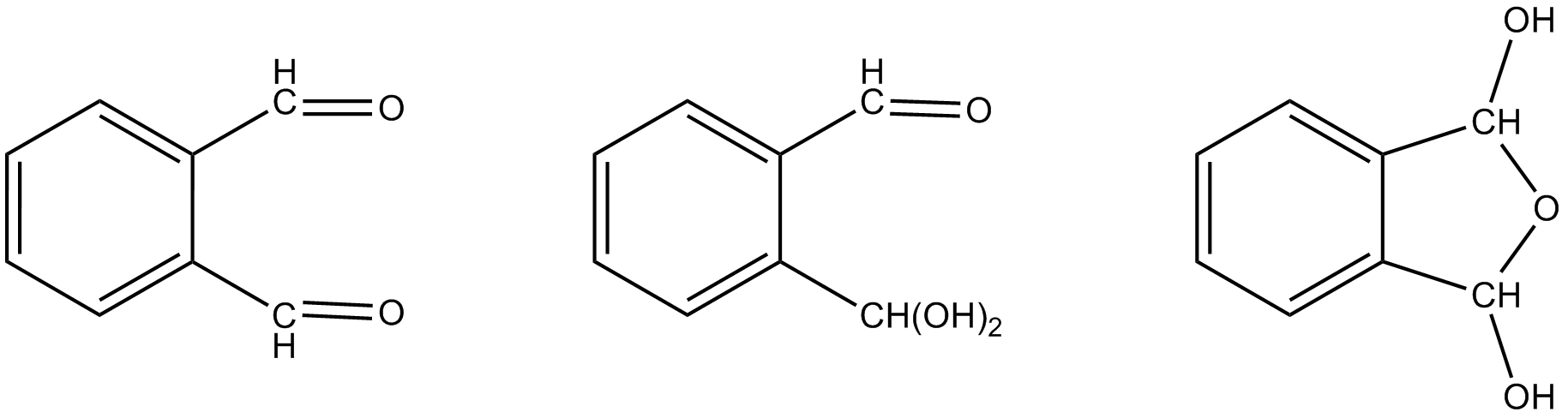 orthophthalaldehyde hydrated forms